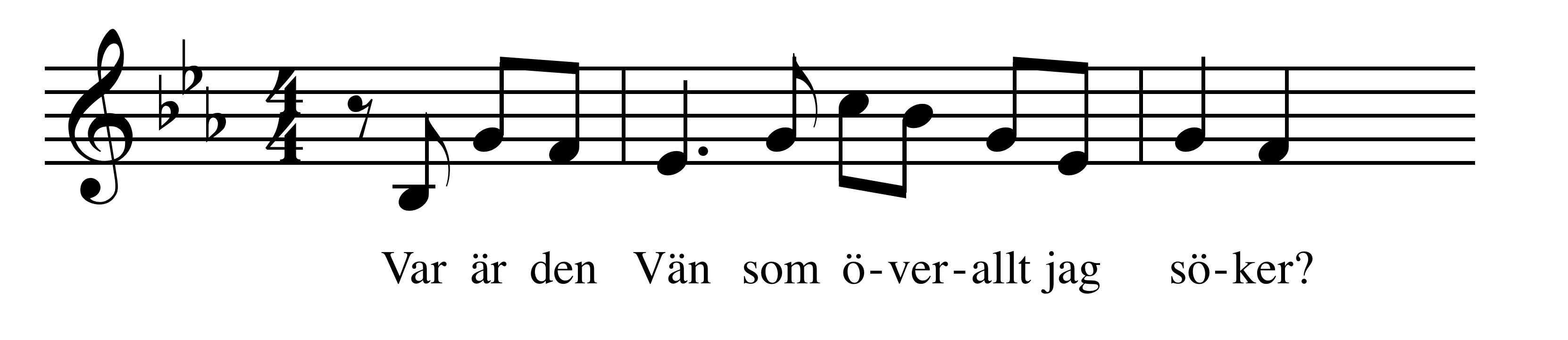 Var_är_den_vän_(Söderberg)